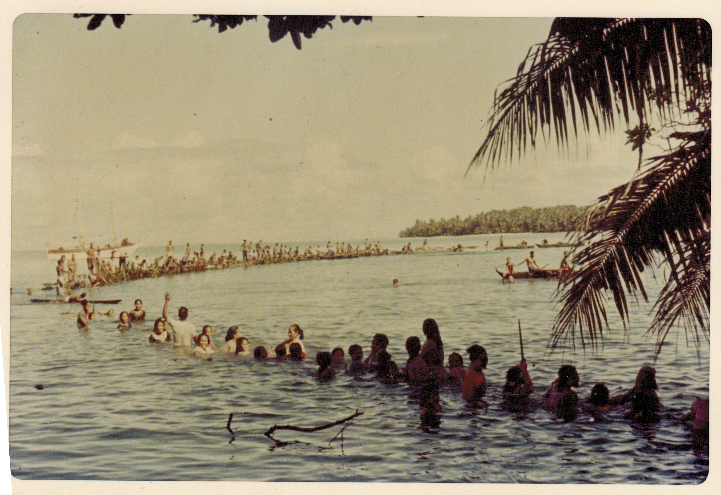 Populace of Lukunor Atoll capturing of schools of small fish, "tiil", in Lukunor Lagoon c. 1948.